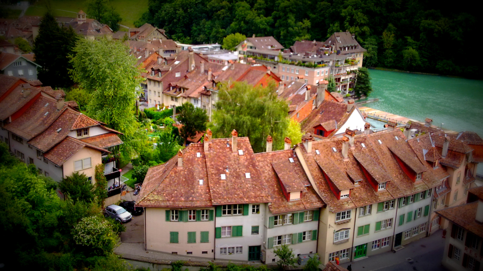 Houses in the Old City of Bern